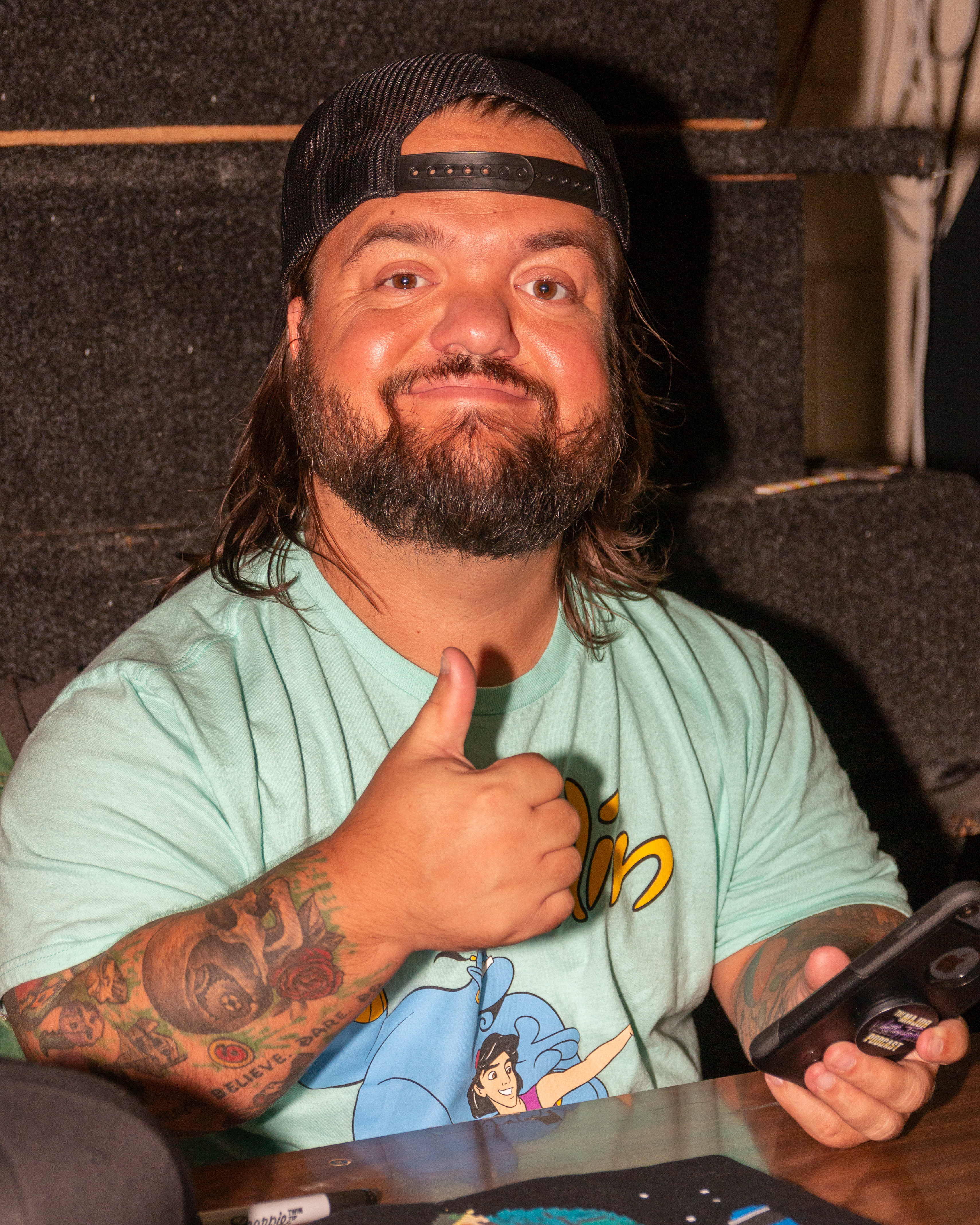 Former WWE wrestler Hornswoggle posing post-show at Alpha-1's The Purge 4 in Hamilton, ON